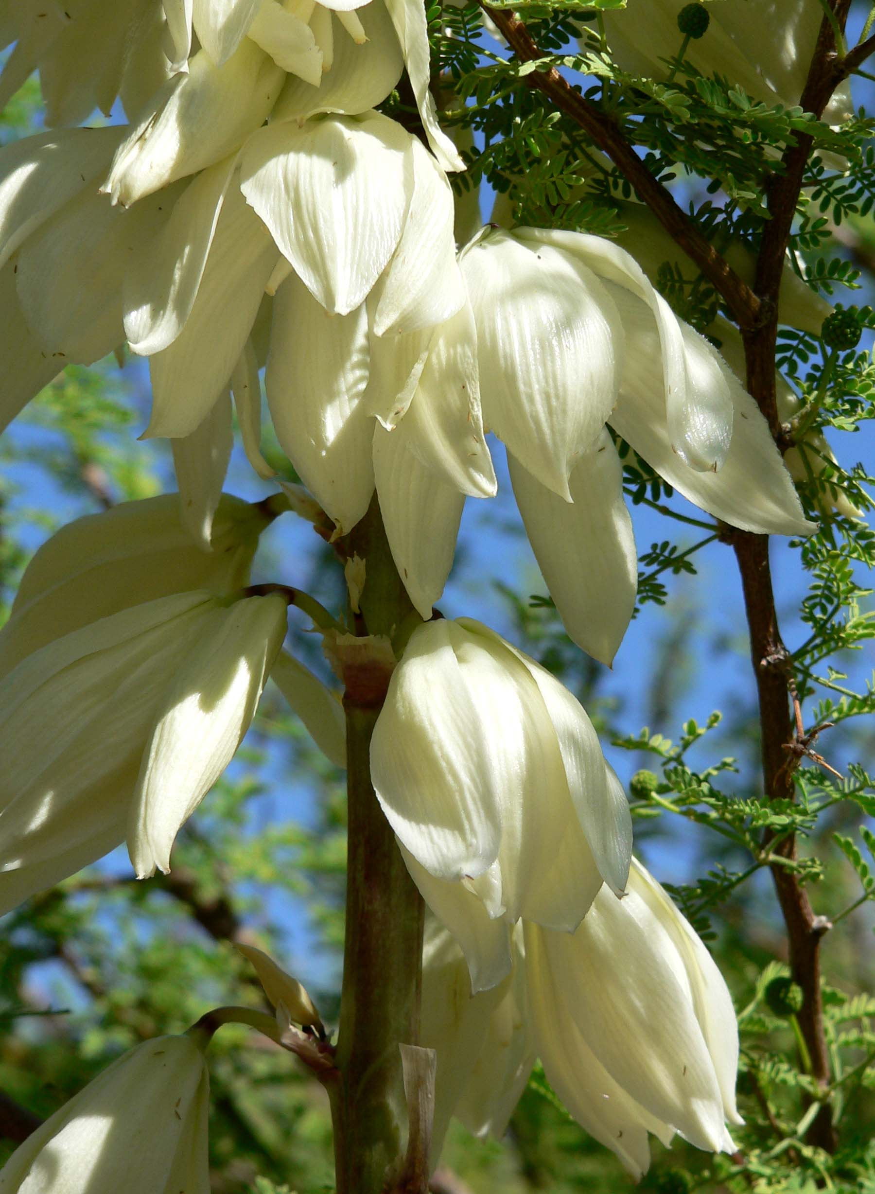 Photo of Yucca thompsoniana (Thompson's yucca) at the Springs Preserve garden in Las Vegas, Nevada